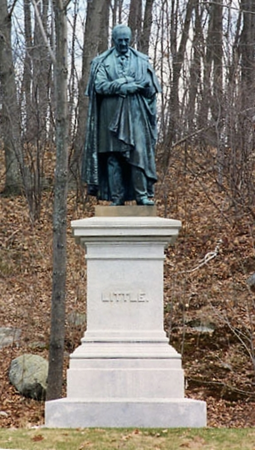 Edward Little Memorial, Edward Little High School, Harris Street, Auburn, Maine, (1875-77), Franklin Simmons, sculptor.